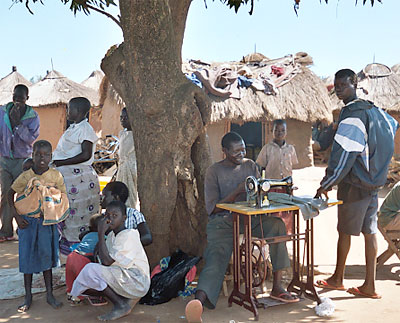 A tailor sets up shop in Lebuje IDP camp (for displaced internal refugees) near Kitgum town, in the Northern Region of Uganda (2005).